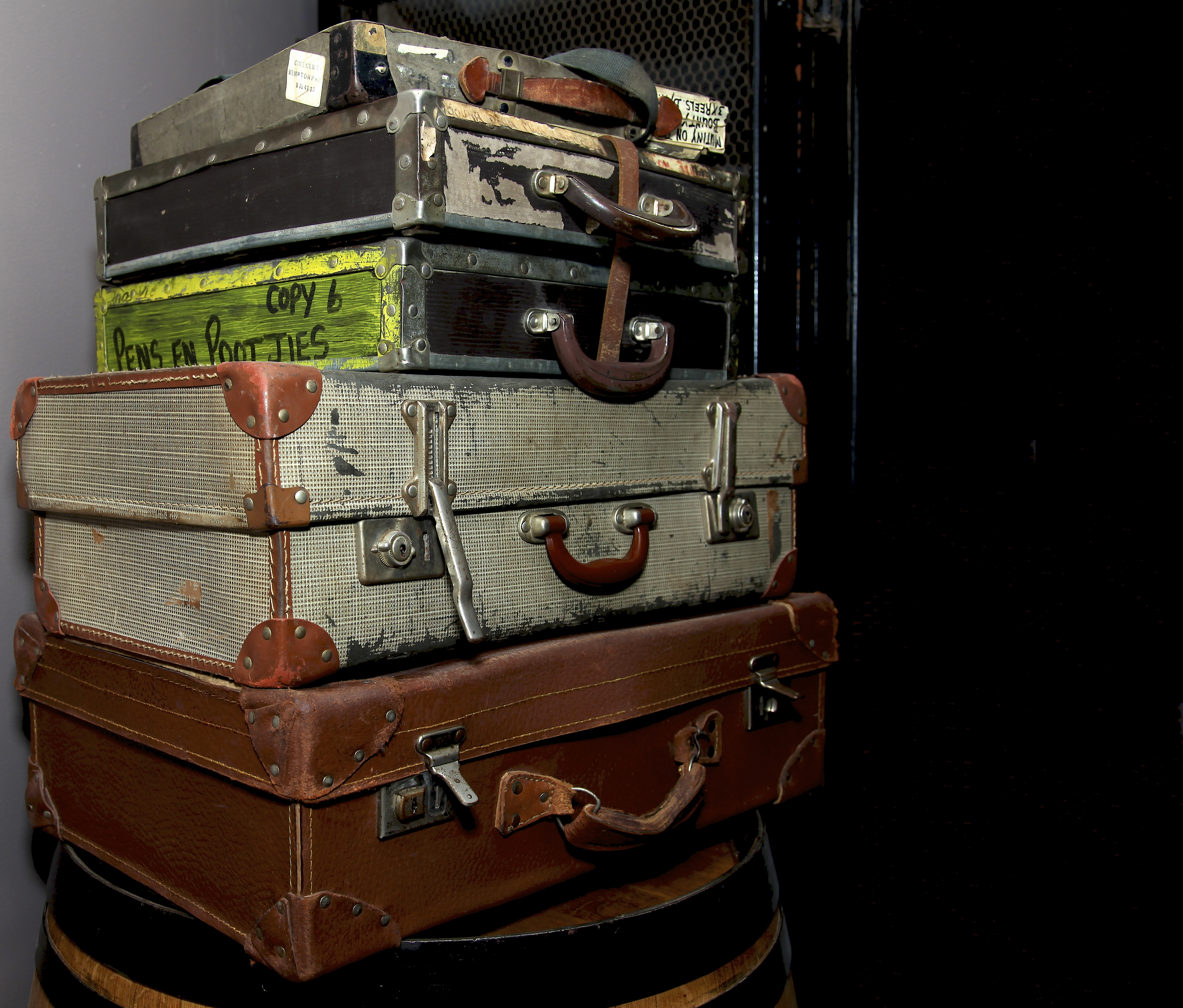 Collection of South African Film Cases from CineCentre Kempton Park